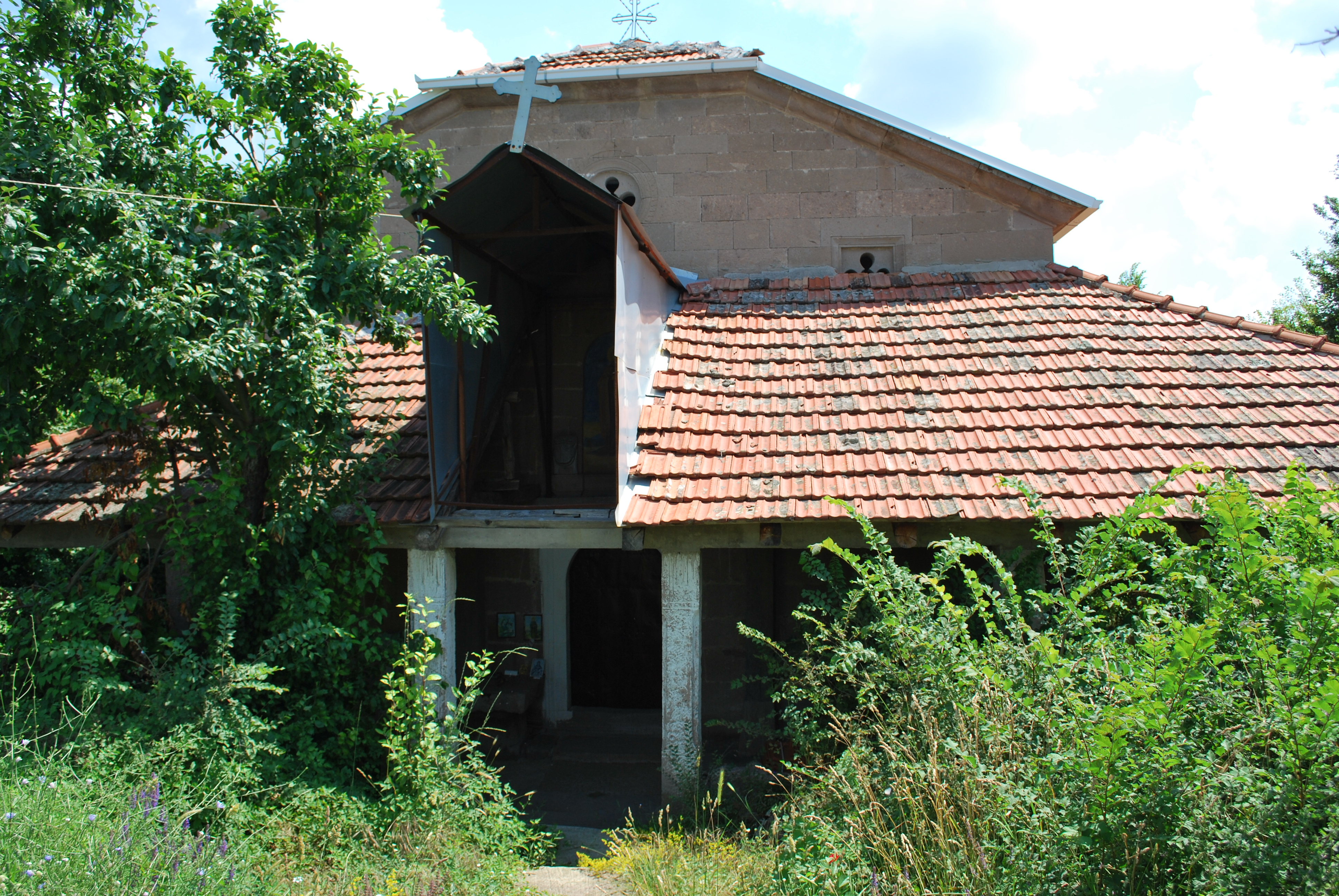 St. Paraskeva Church in Ruǵince, Macedonia